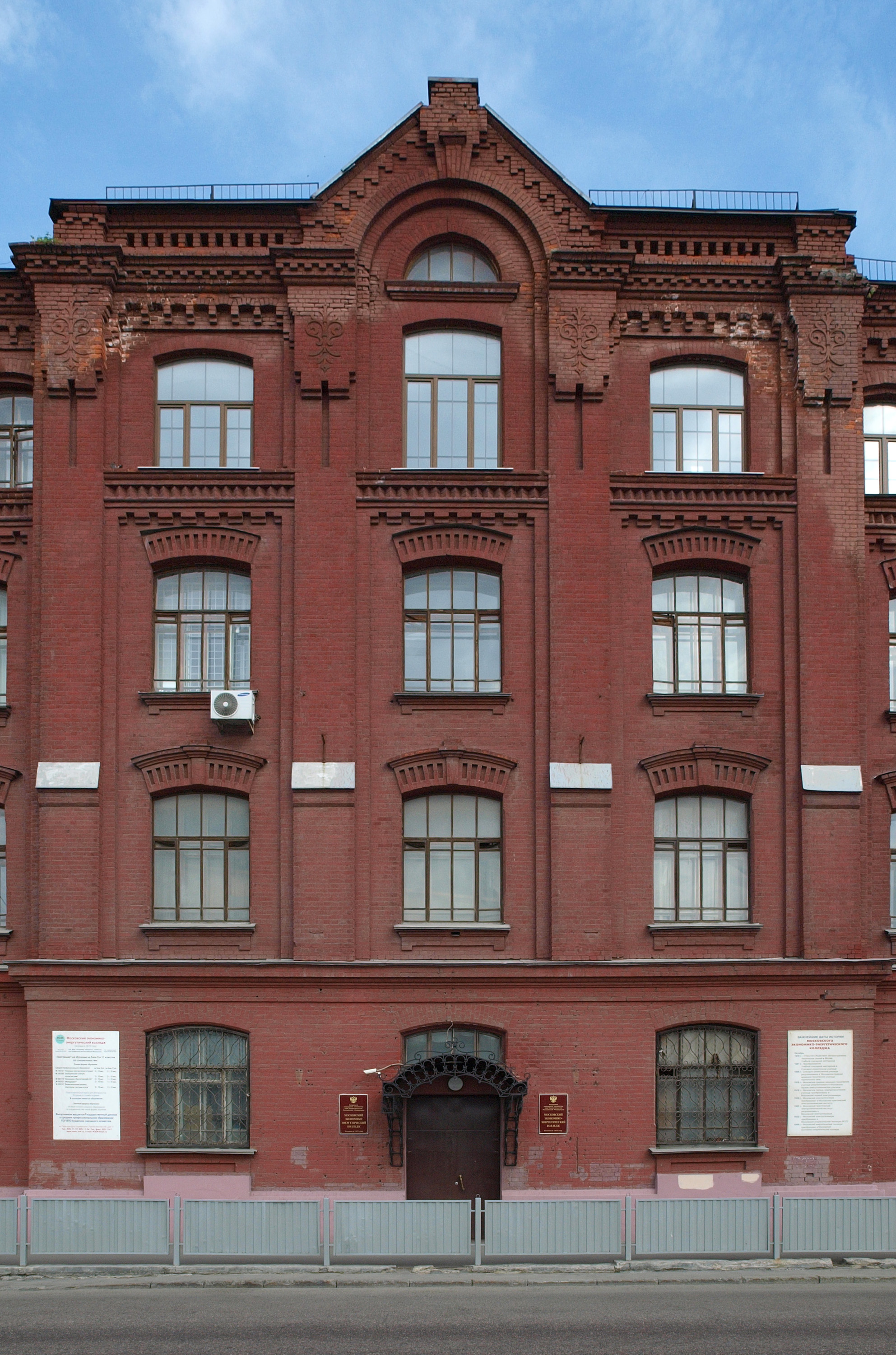 Prechistenskaya Embankment, Moscow.